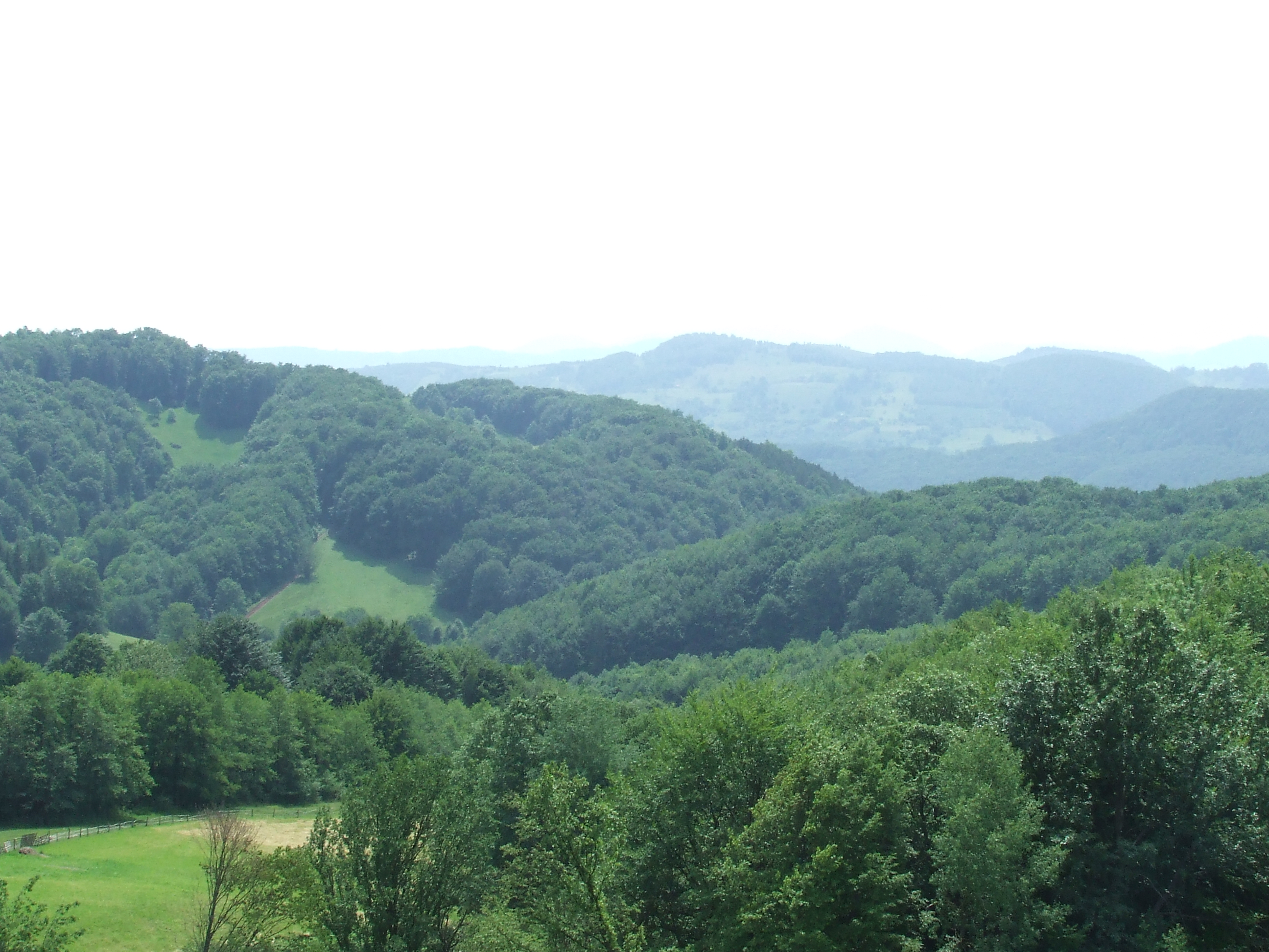 Beautiful view in Bucea, Romania.